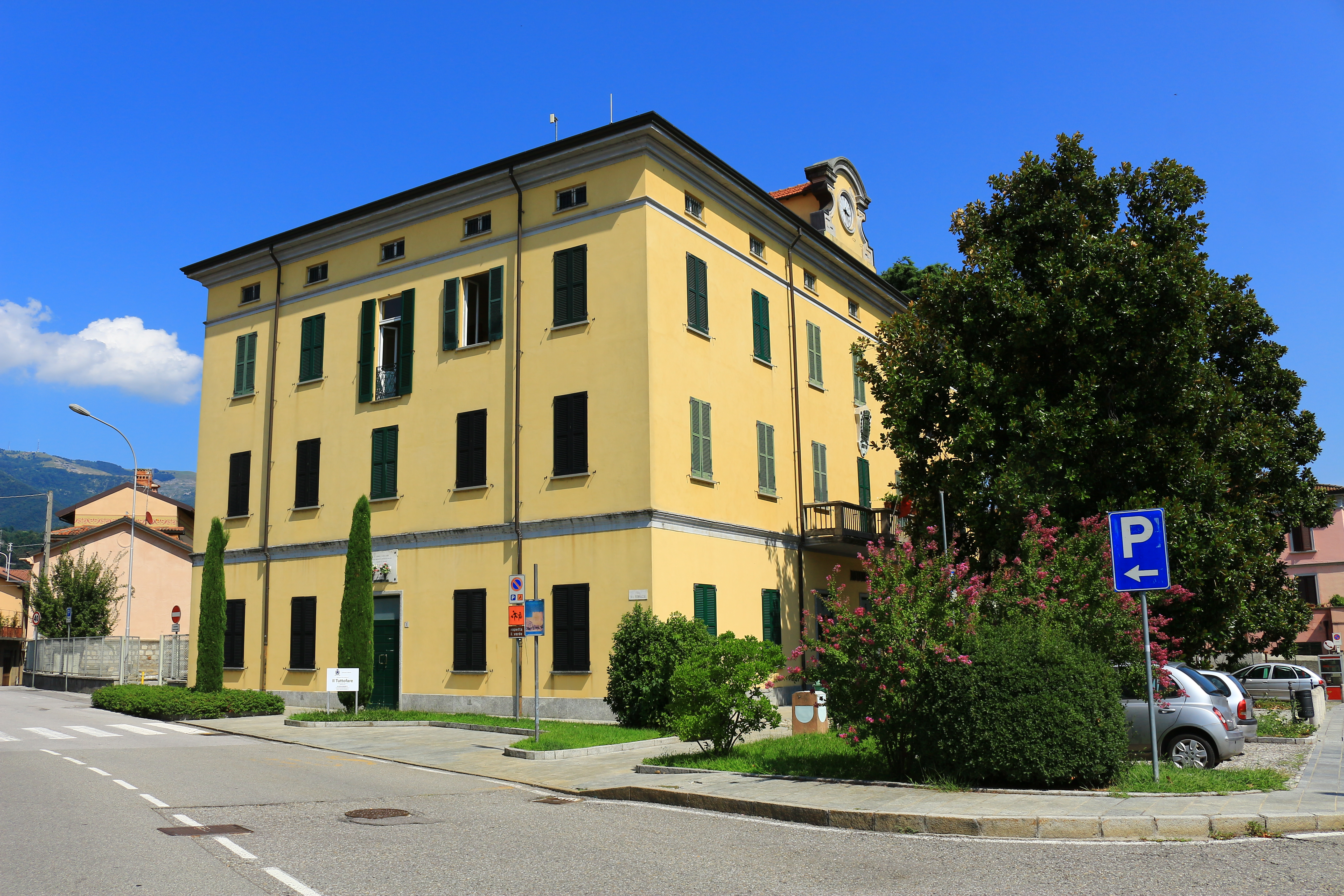 Town Hall of Brivio Comune di Brivio Brivio, Italy August 2018